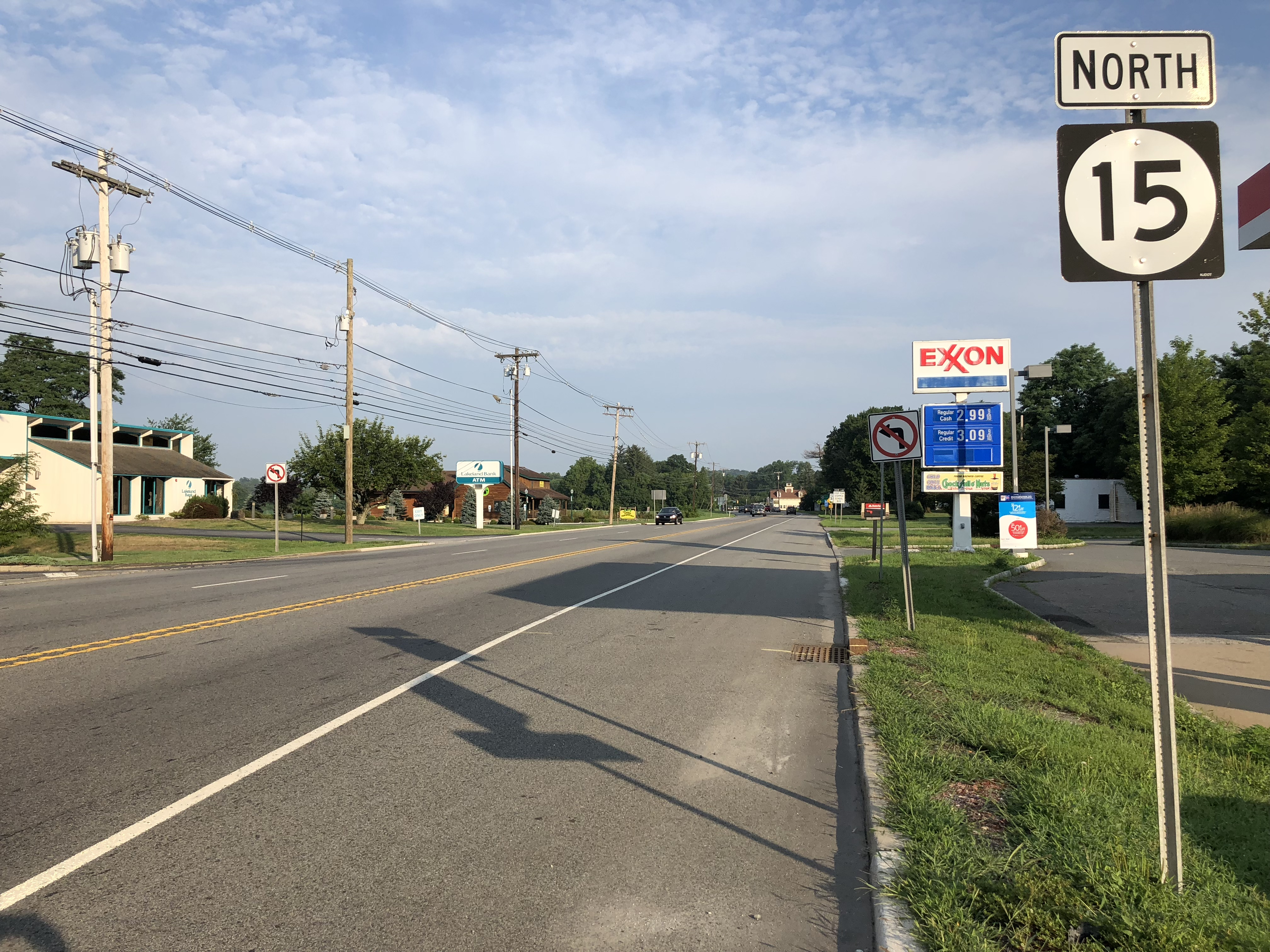 View north along New Jersey State Route 15 and south along New Jersey State Route 94 (Lafayette Road) at Sussex County Route 623 (Sunset Inn Road) in Lafayette Township, Sussex County, New Jersey